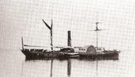 The Imperial-Royal aviso “Hess” of the Austrian-Hungarian navy near to Lake Garda; after 1866 it became an asset of the Royal Italian Navy with the name as “Principe Oddone”